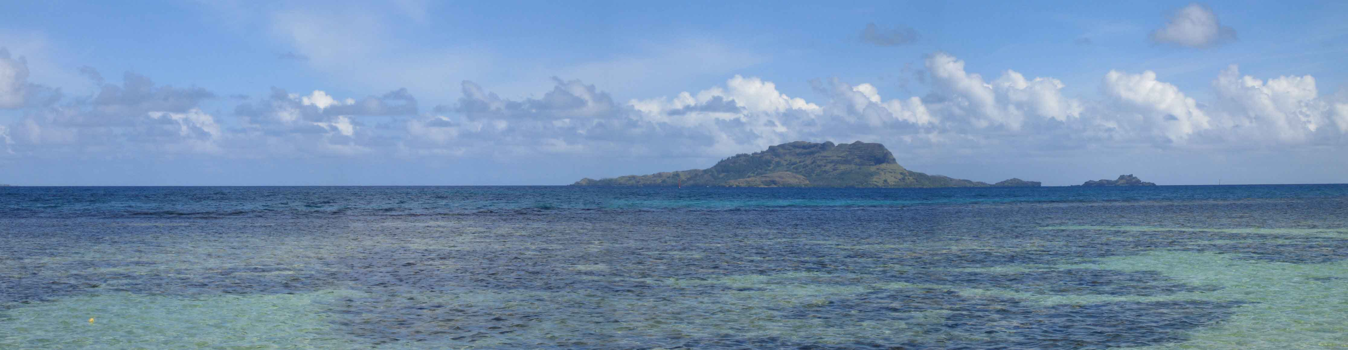 Akamru, Gambier Islands, French Polynesia